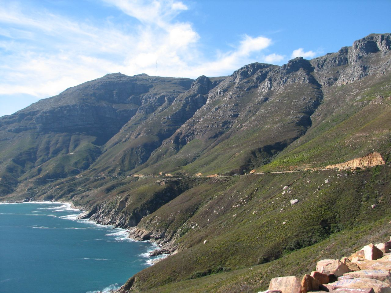 This is the road that leads down to Hout Bay. From Hout Bay you can go left around the Llandudno coastal road through Sea Point to Cape Town, or you can go right and over Constantia Nek and through Kirstenbosch back to Cape Town. Fly to this location (Requires Google Earth)